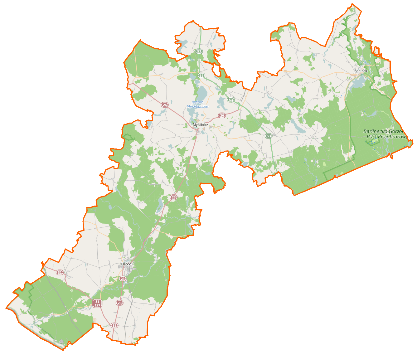 Map of Powiat myśliborski, Poland This map of Powiat myśliborski was created from OpenStreetMap project data, collected by the community. This map may be incomplete, and may contain errors. Don't rely solely on it for navigation.